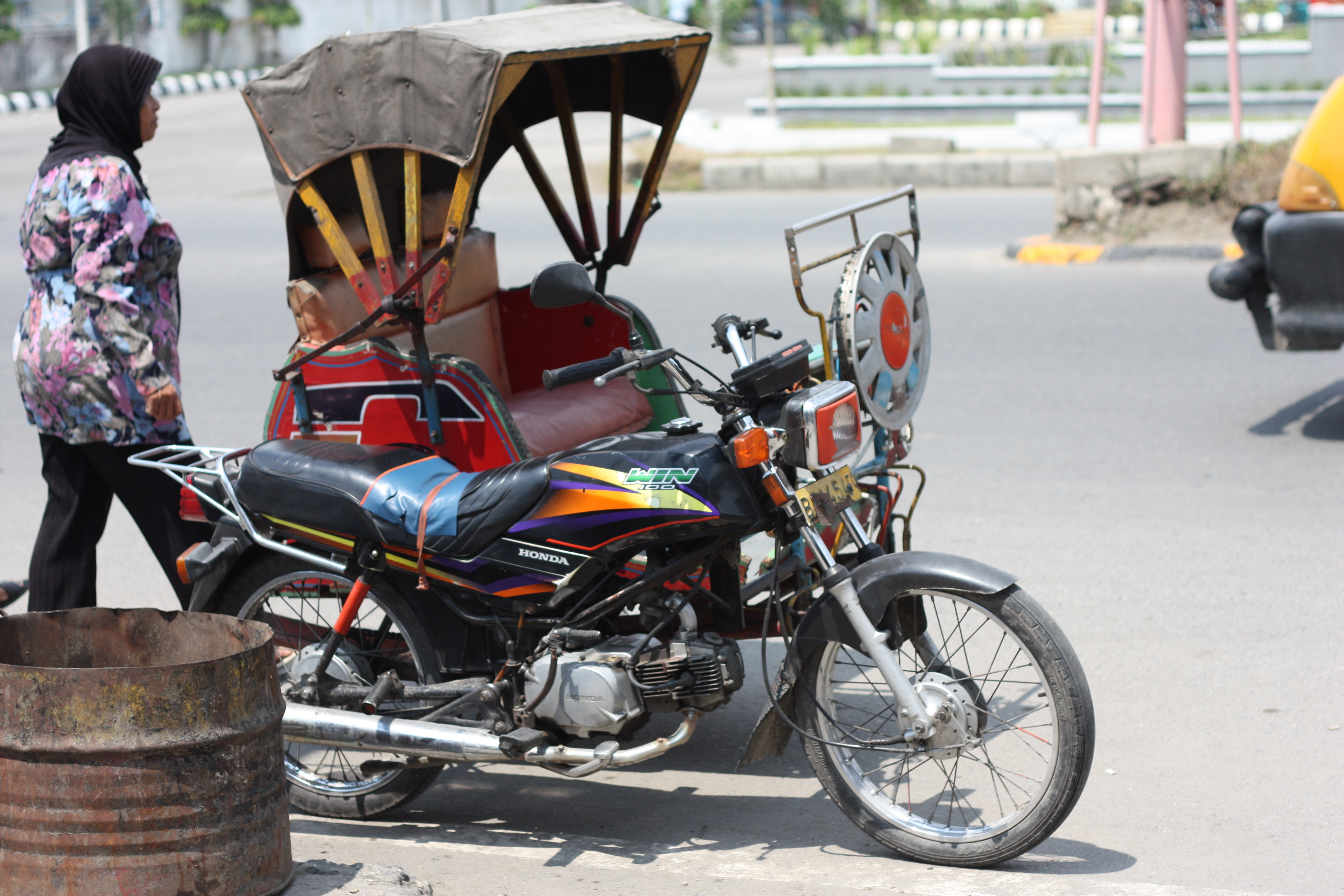 Motorized rickshaw, or popular known in Indonesia as Bajay, is a motorized development of the traditional pulled rickshaw or cycle rickshaw.